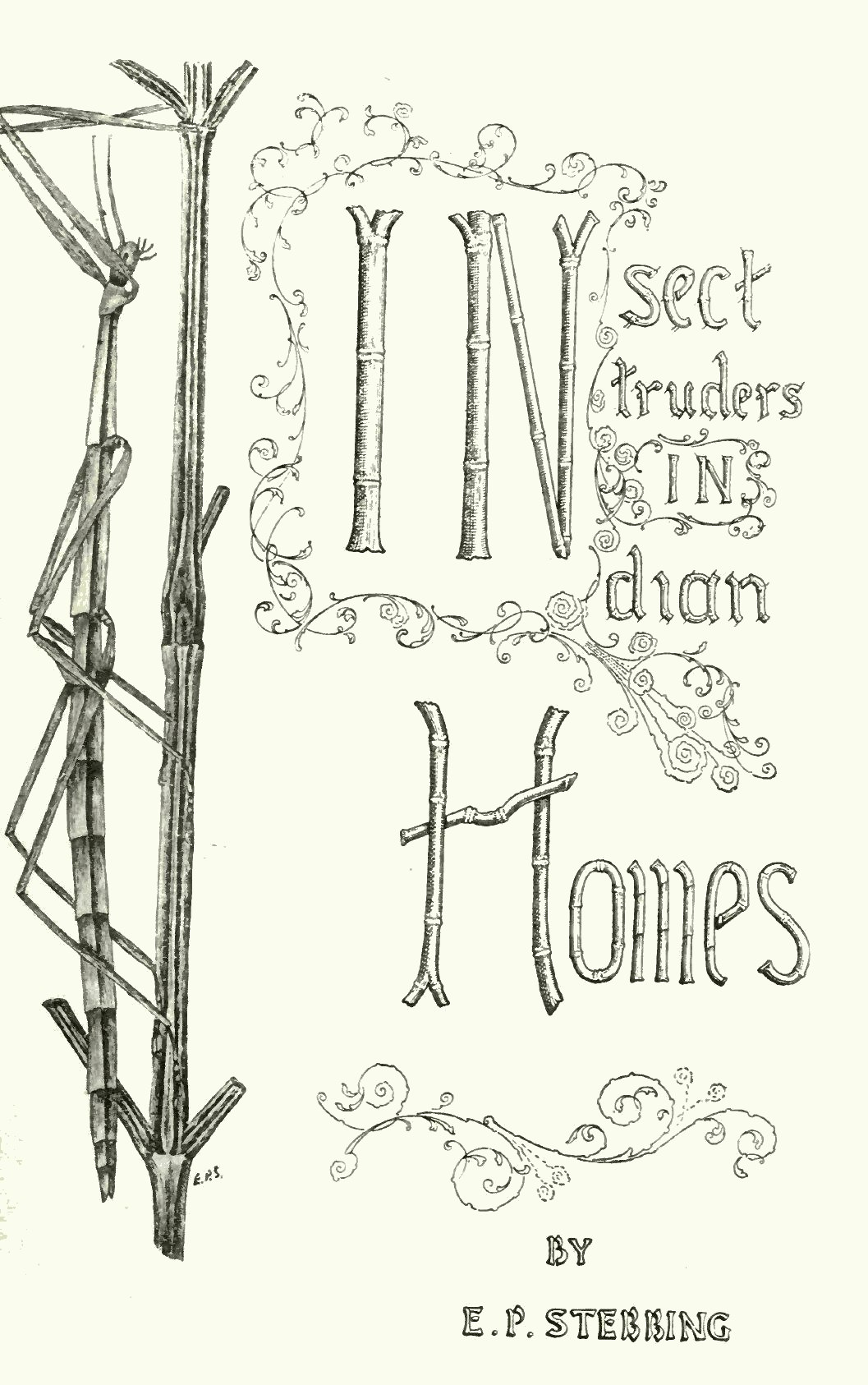 Cover of E P Stebbing's Insect Intruder book